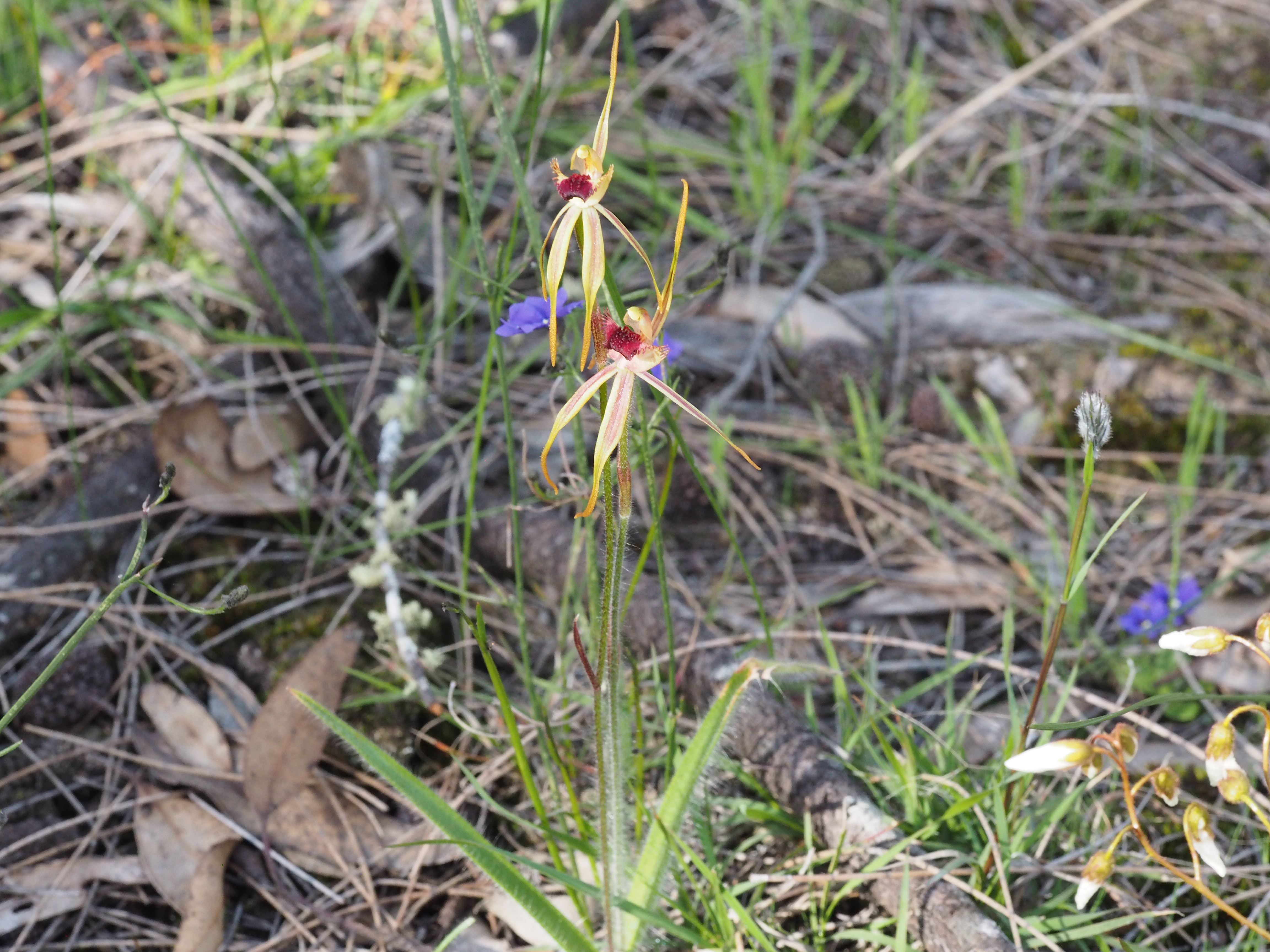 Caladenia longiclavata growing near Williams, Western Australia